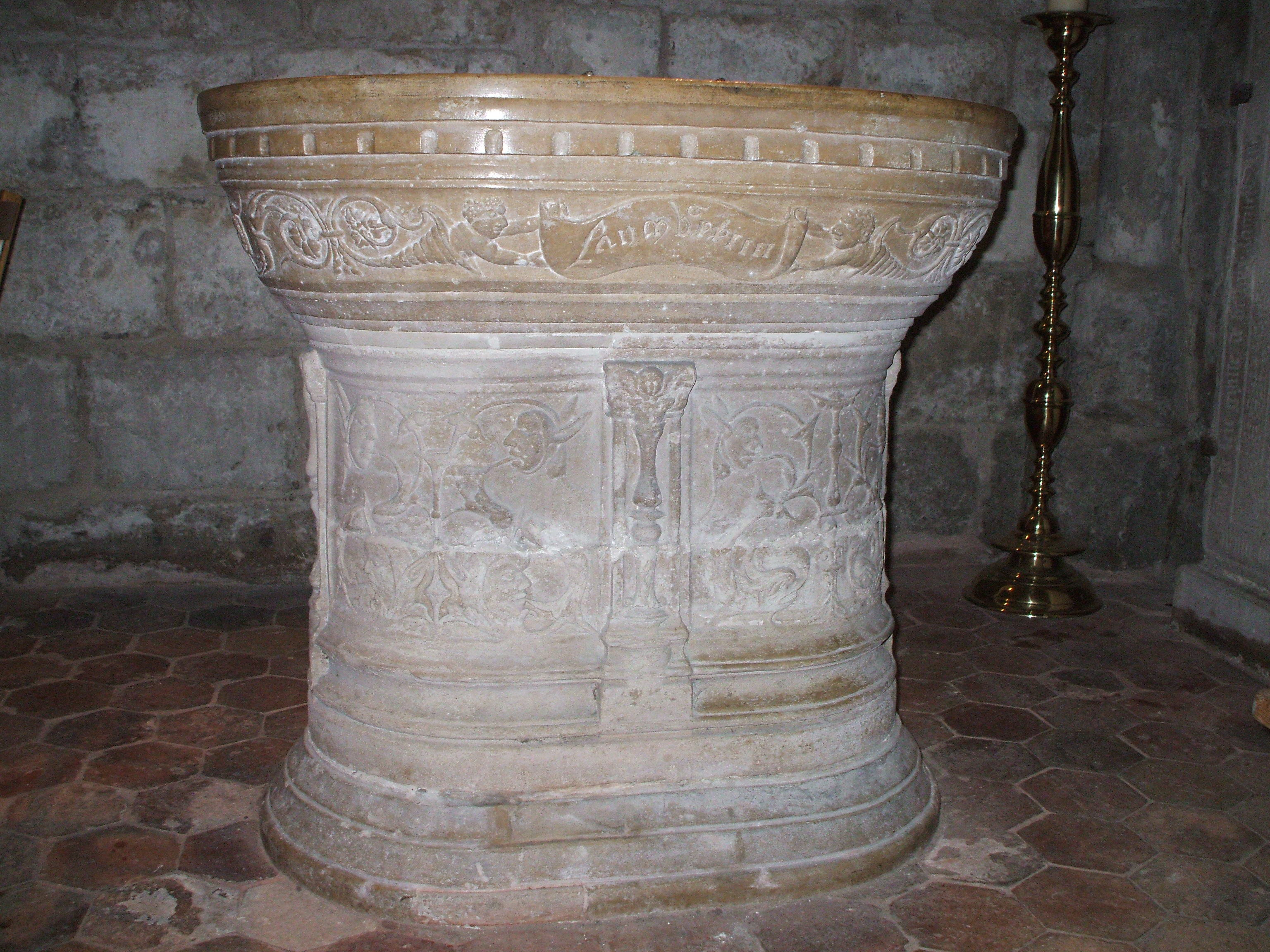 Baptismal font of belloy en france church's